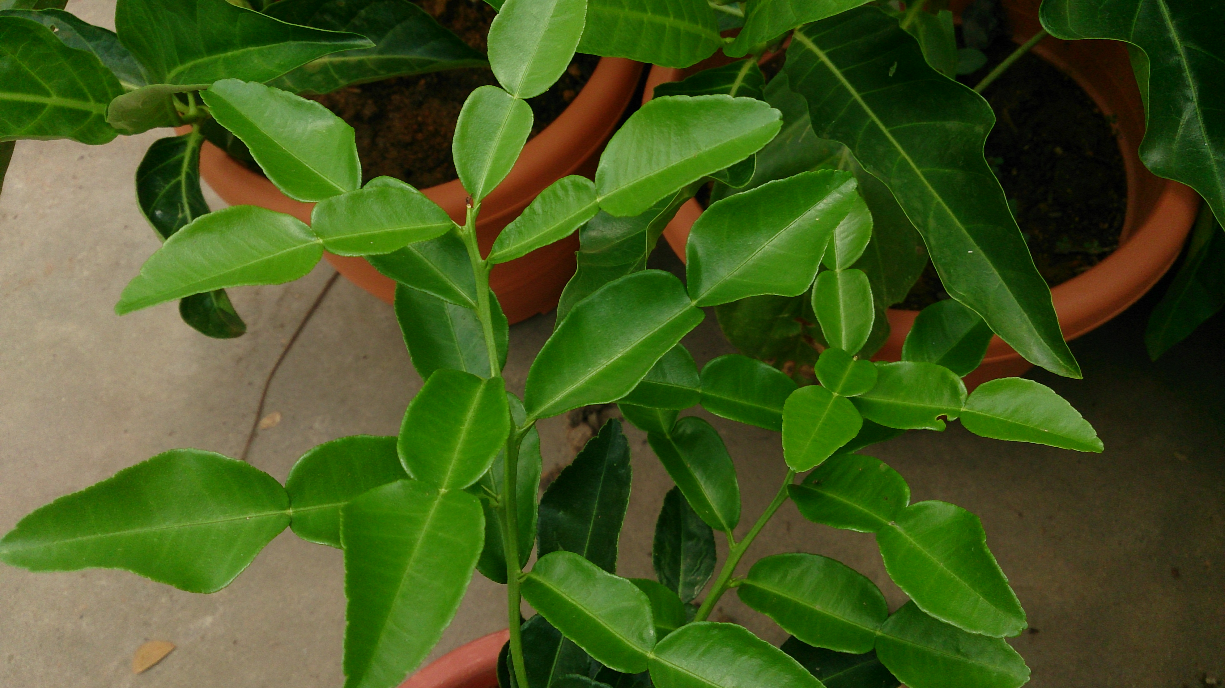 Citrus hystrix. Common names: Kaffir Lime. Makrut Lime. papeda. Limau purut (Malay). 箭叶橙 jiàn yè chéng (Chinese). Used in Thai tom yum soup.